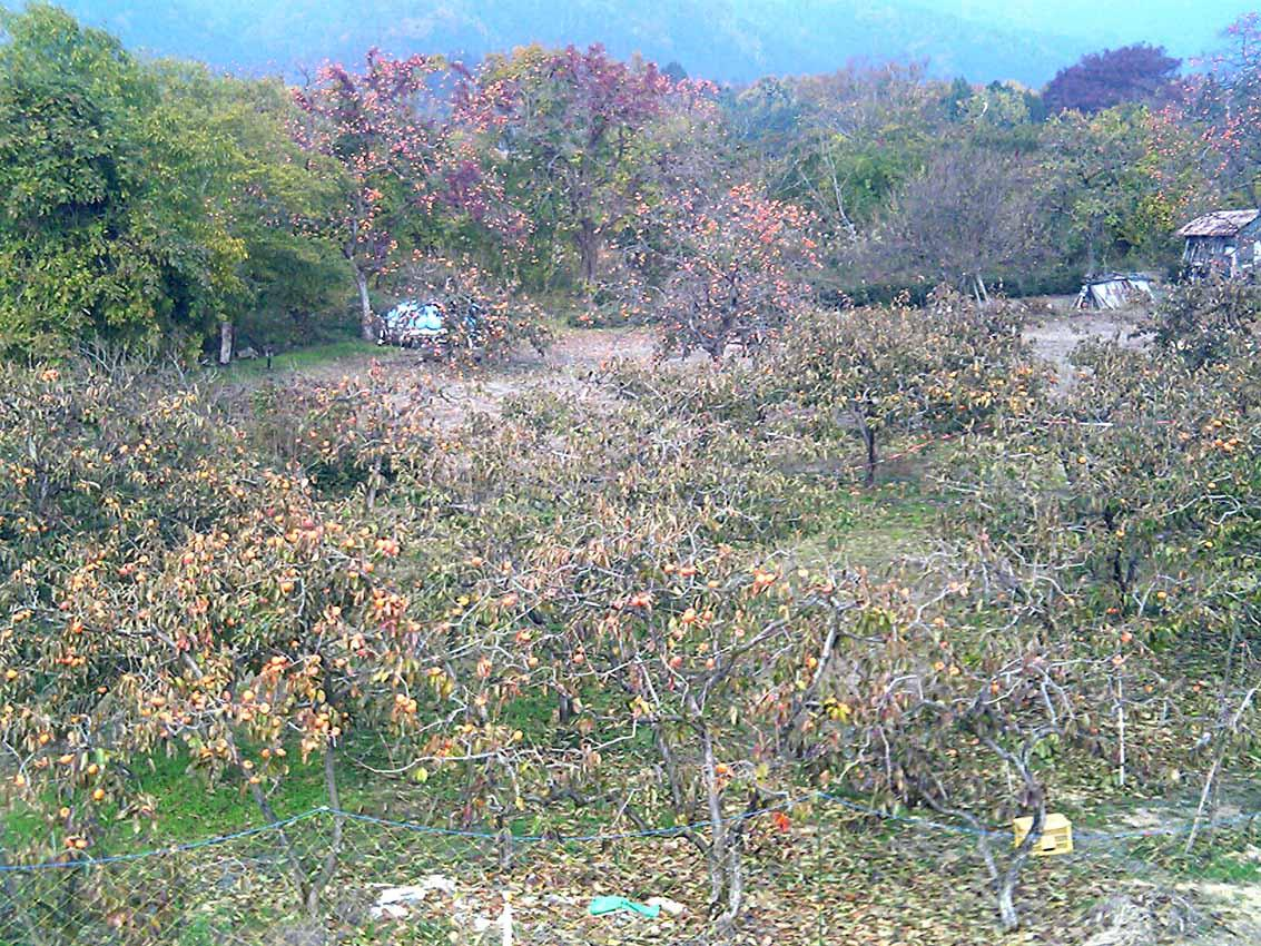 Example of persimmon orchard in northern Kansai region, Japan. Date: Nov. 27, 2005(JST) Vineyard user:OAS WARNING!: When use this photo to external website or printed matter etc., you must mention author (Vineyard) by all means.